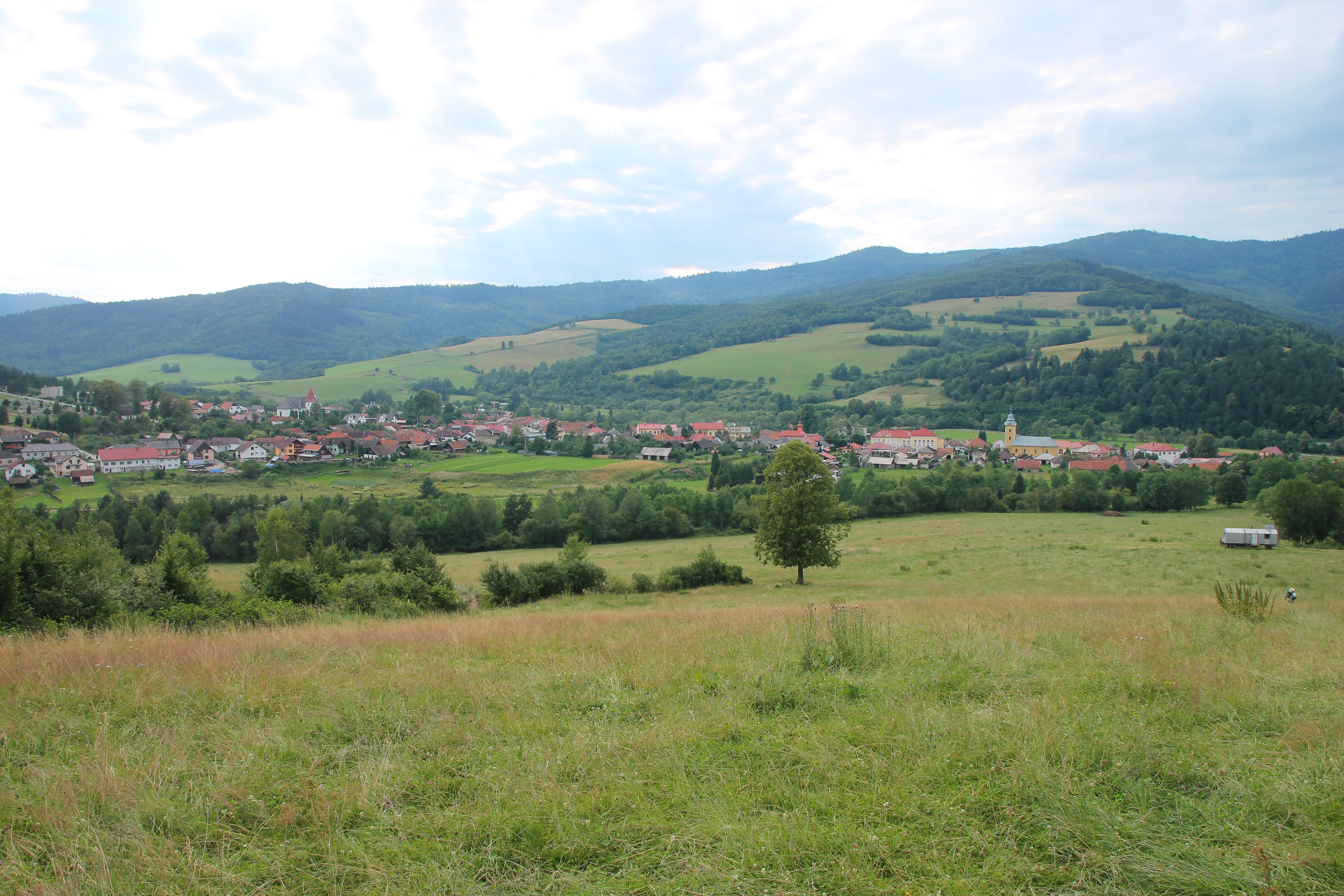 View of Mníšek nad Hnilcom from the south